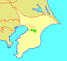 Midori-ku, Chiba. Midori-ku within Chiba city, Japan